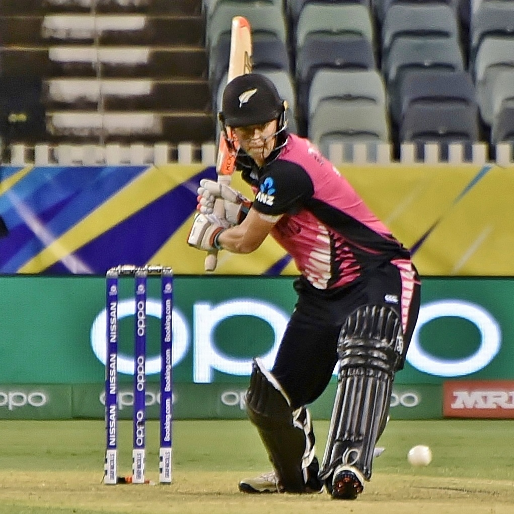 Sophie Devine batting for New Zealand against Sri Lanka during their 2020 ICC Women's T20 World Cup match at the WACA Ground in Perth, Australia